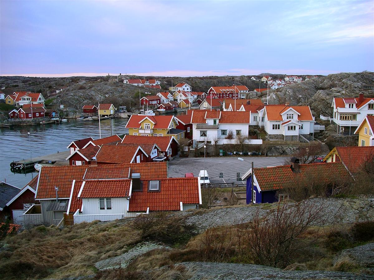 Kyrkesund on Tjörn